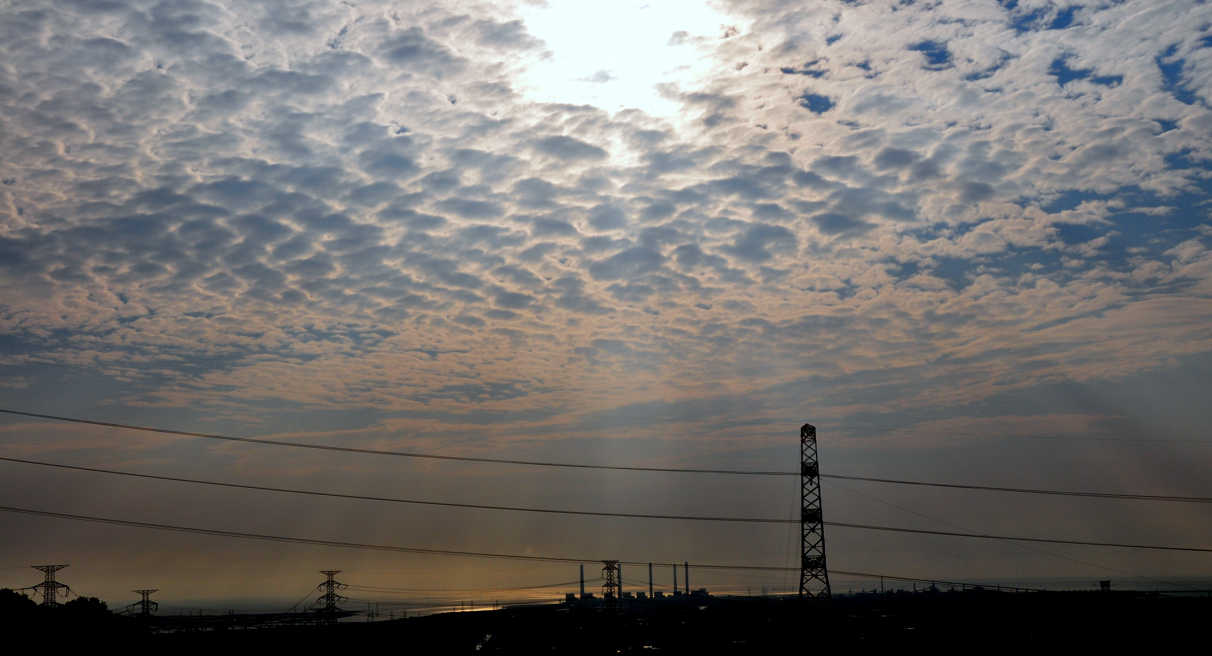 Looking down the Sunlight under altocumulus Taiwan Taichung County Wu River estuary scenery.